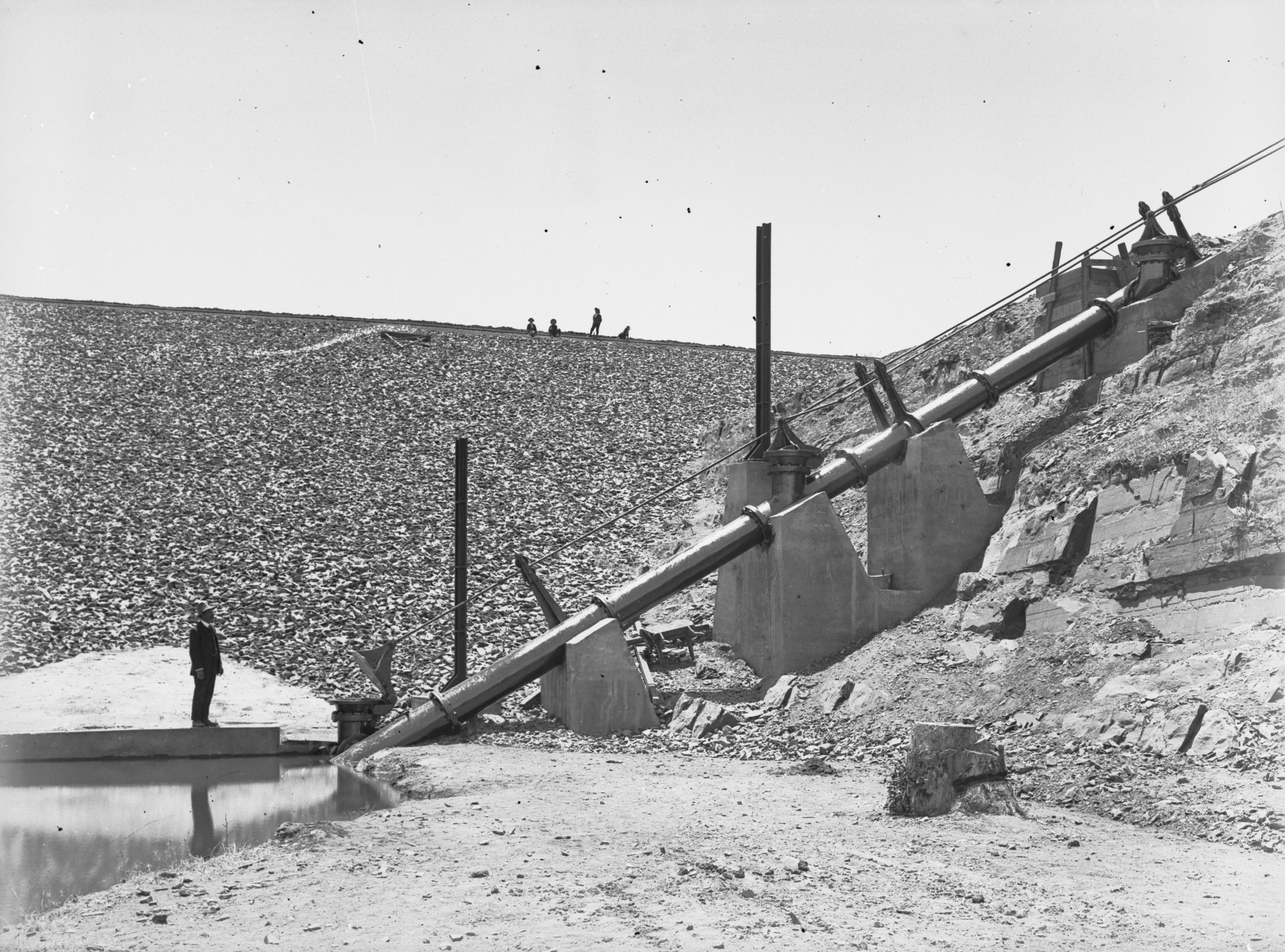 Pekina Creek dam, near Orroroo, c.1906. Pekina Dam in 1907 and Irrigation Scheme nearby opened in 1910.